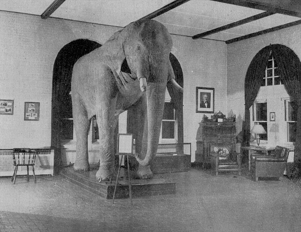 P.T. Barnum’s Famous “Jumbo”